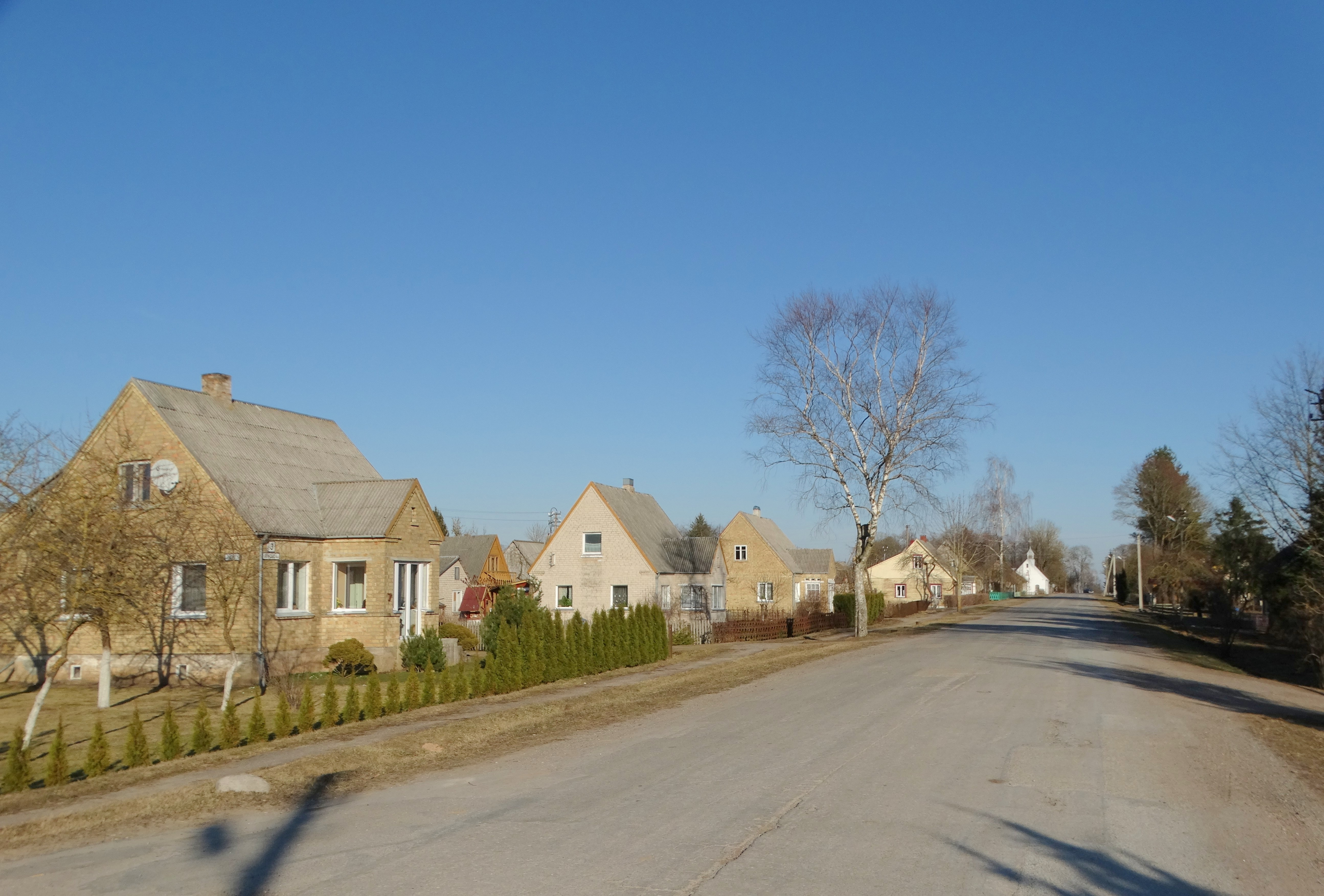 Polekėlė, Radviliškis District, Lithuania